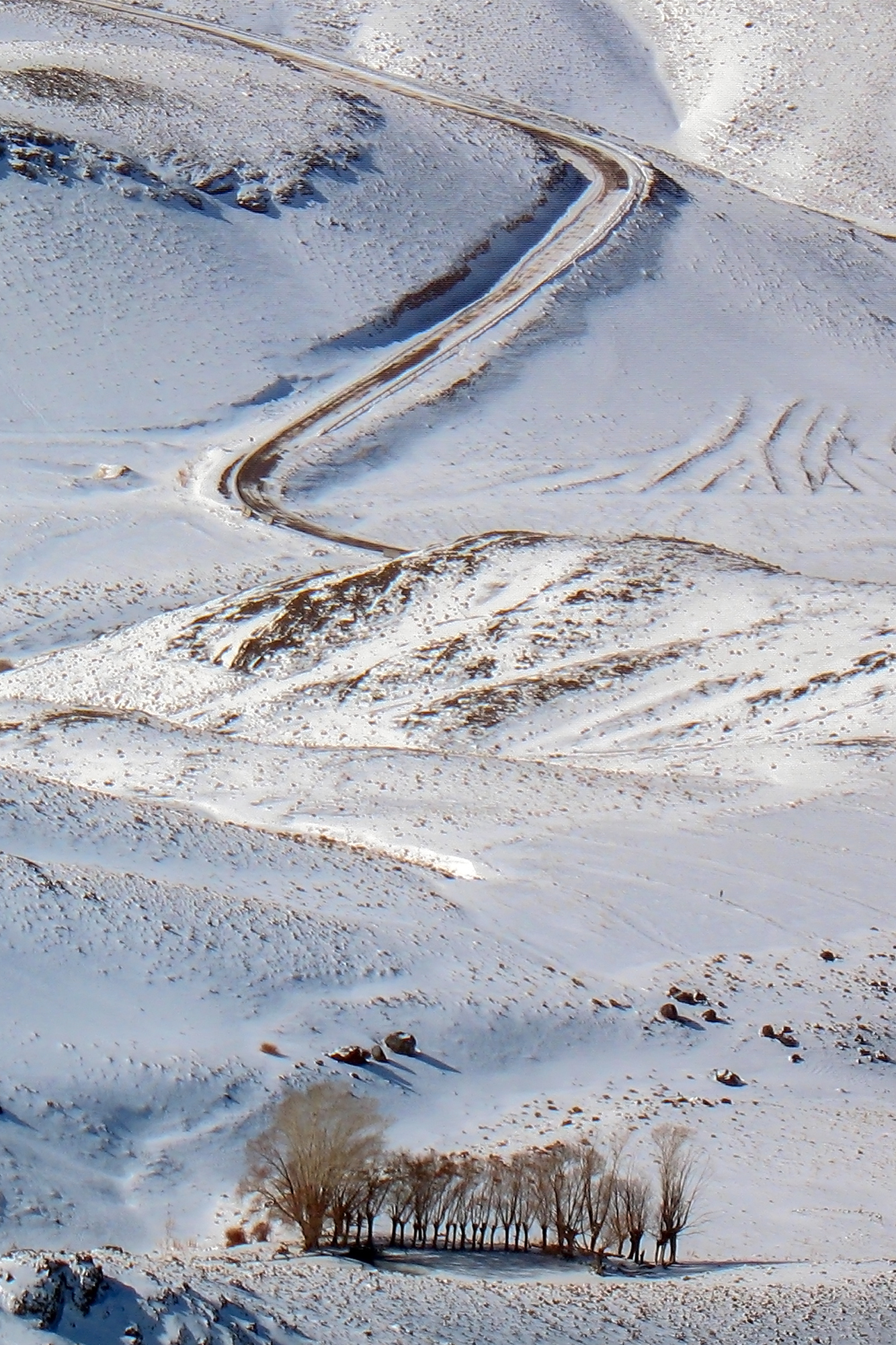 om Province (Persian: استان قم, Ostān-e Qom) is one of the 31 provinces of Iran with 11,237 km², covering 0.89% of the total area in Iran. It is in the north of the country, and its provincial capital is the city of Qom. Acèh: Propinsi Qom nakeuh saboh propinsi nyang na di Iran.